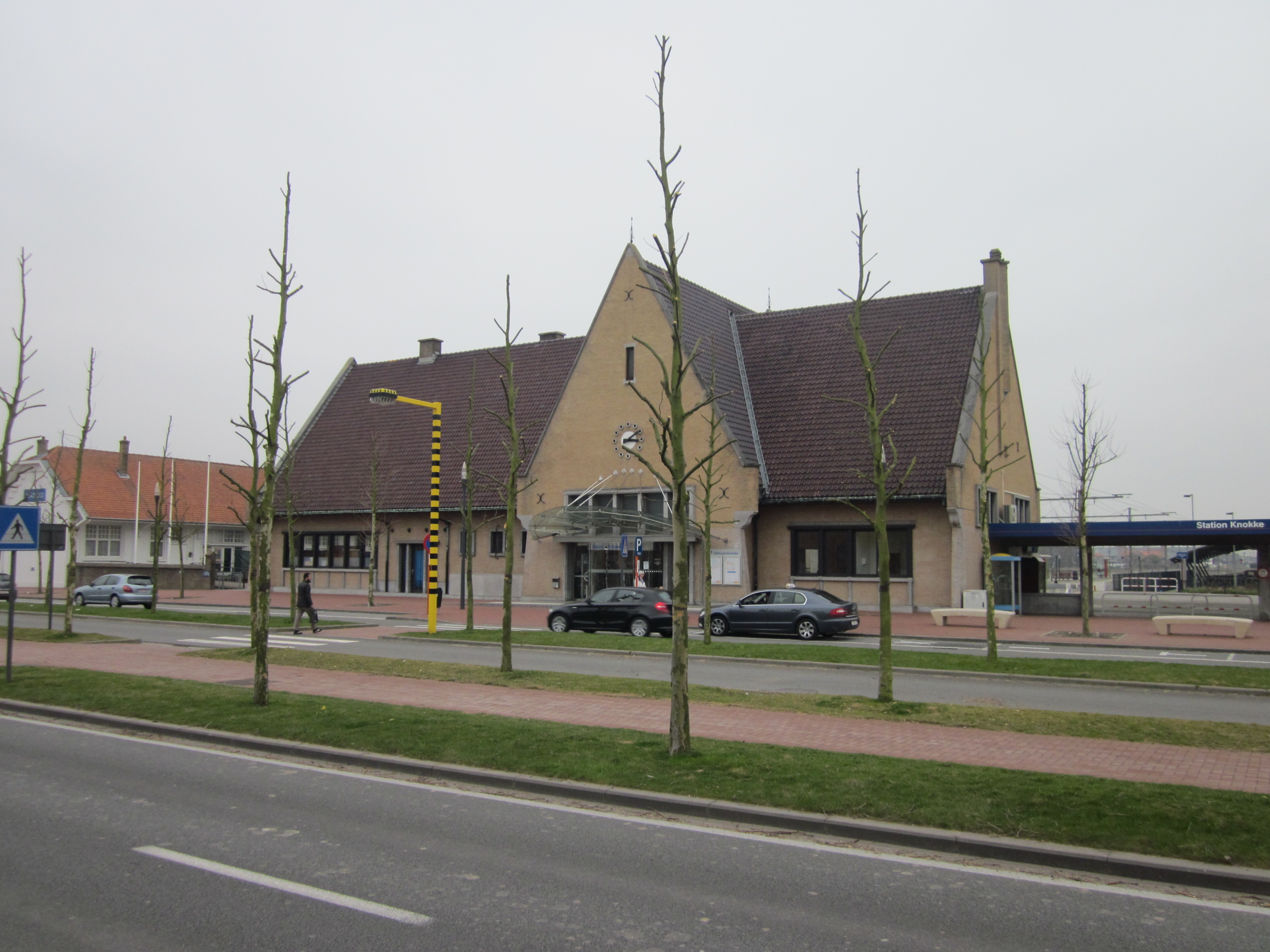 Train station Knokke, Belgium